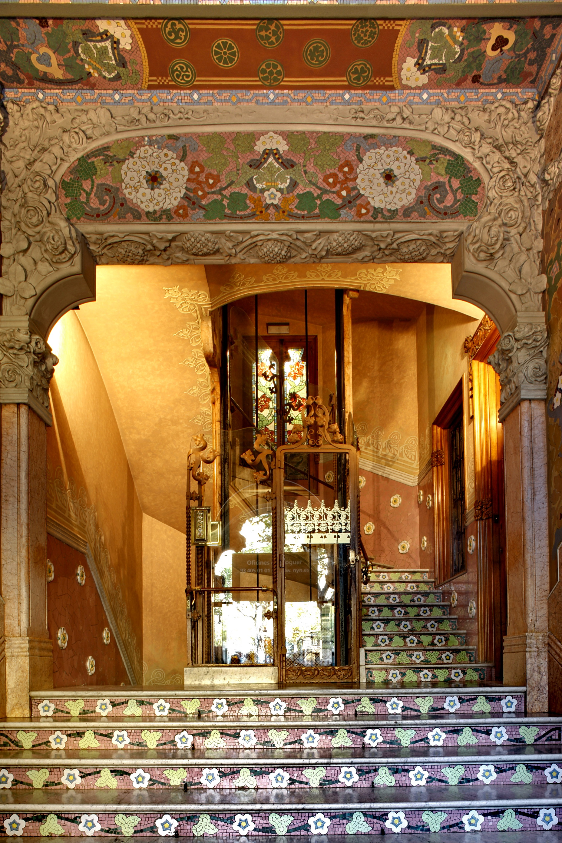 Casa Lleó i Morera. Entrance.